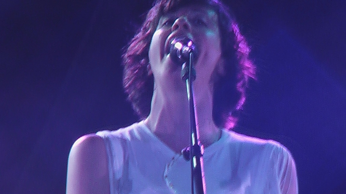 Alanis Morissette live at the Moon&Stars Festival Locarno 2004